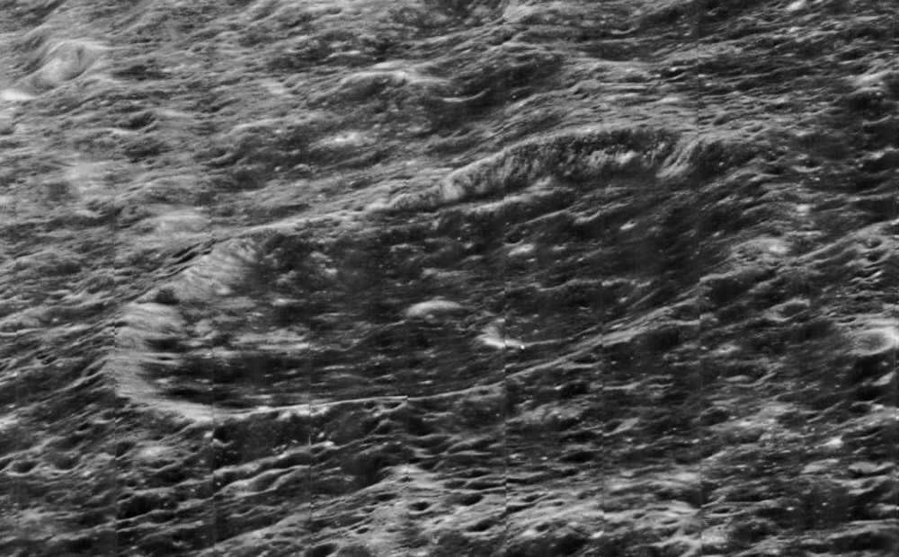 Khvol'son, on the far side of the moon, facing west.